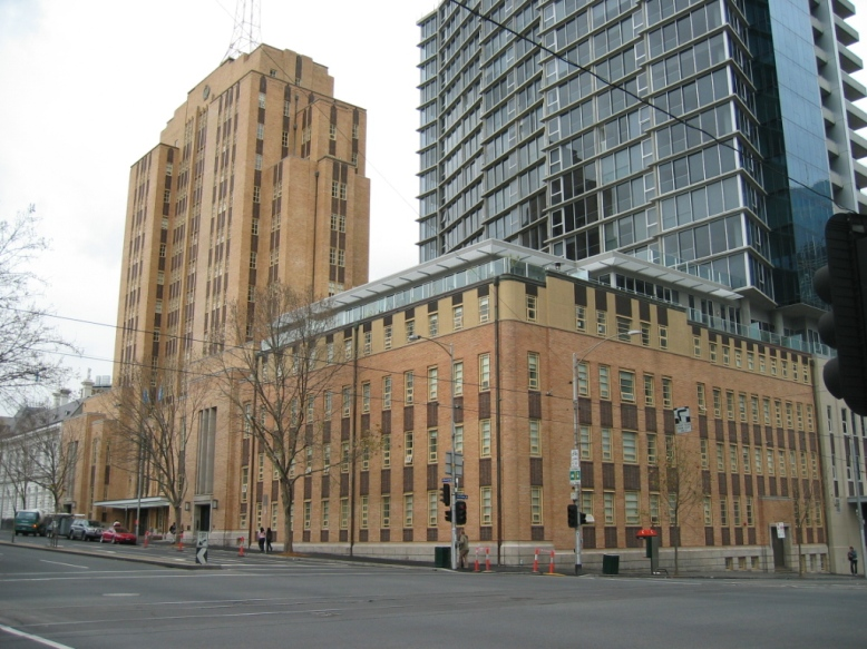 Photo taken by user on 11 July 2005. Standing on South West corner of La Trobe and Russell Streets facing NE. Note that the building has been converted to apartments following the discontinuation of its use as a police station and the apartments on the 5th floor have been added since.